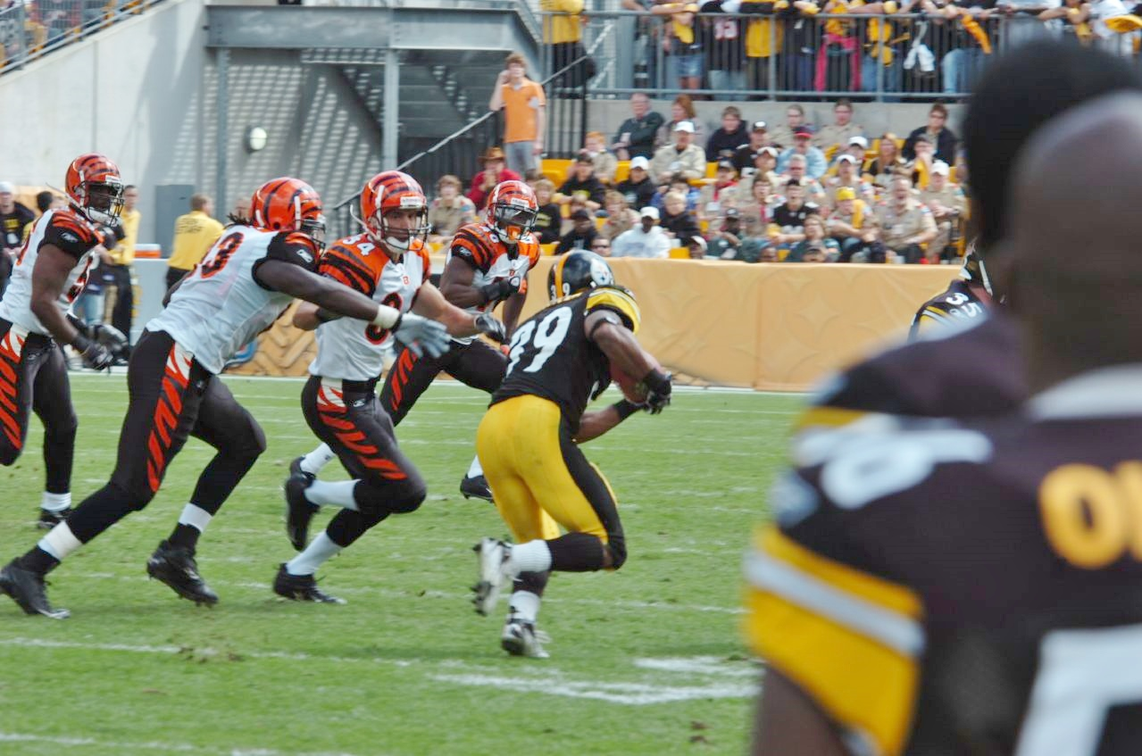 Three Cincinnati Bengals defenders (including Kevin Kaesviharn in center) pursue Pittsbu.gh Steelers running back Willie Parker